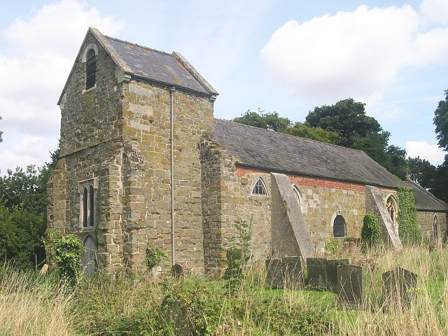 St Peter's parish church, Asterby, Lincolnshire, seen from the southwest